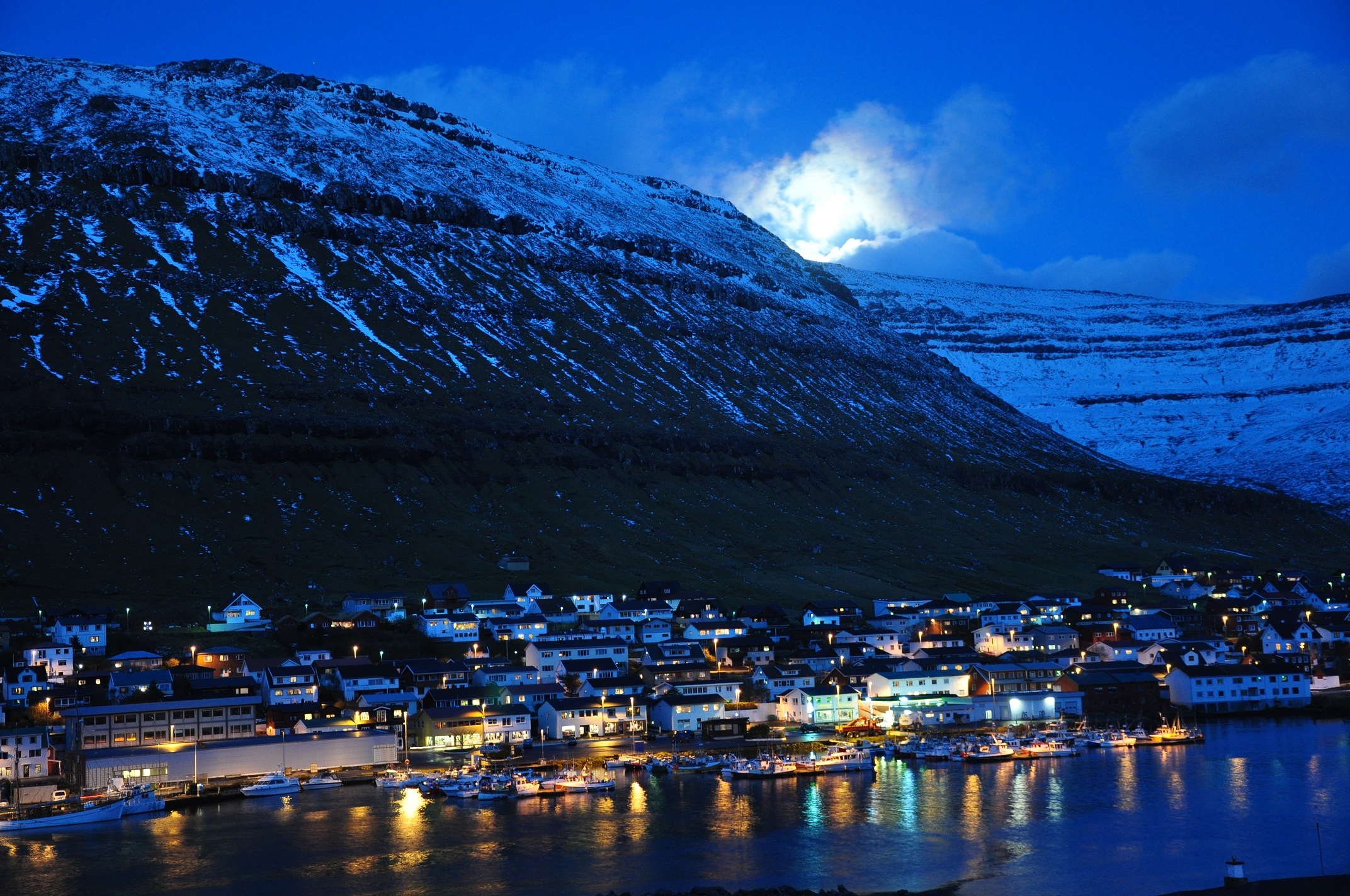 Moonrise over Klaksvík (Borðoy, Faroe Islands, Denmark), seen from Hotel Klaksvík.